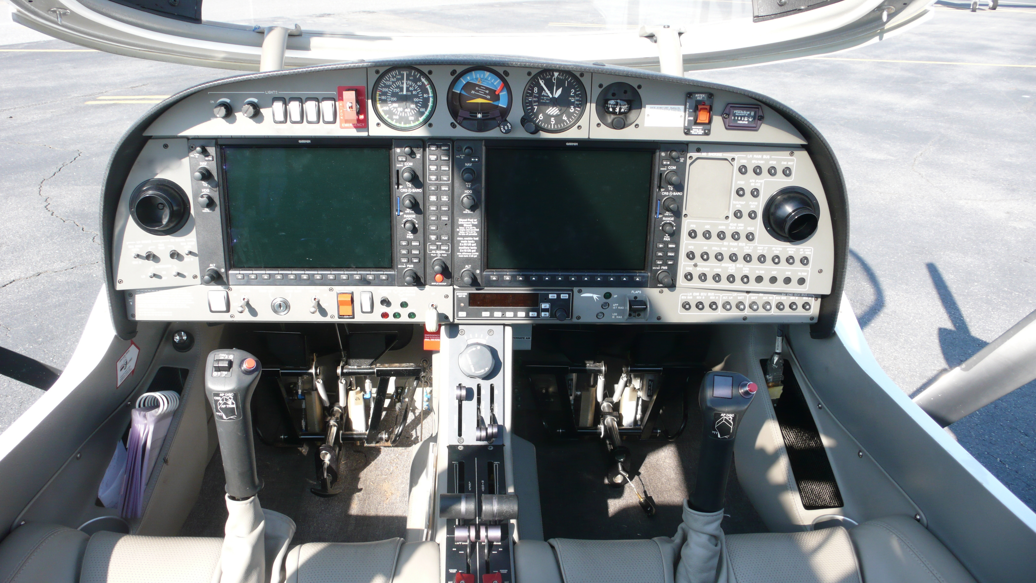 DA 42 with G1000 Instrument panel.